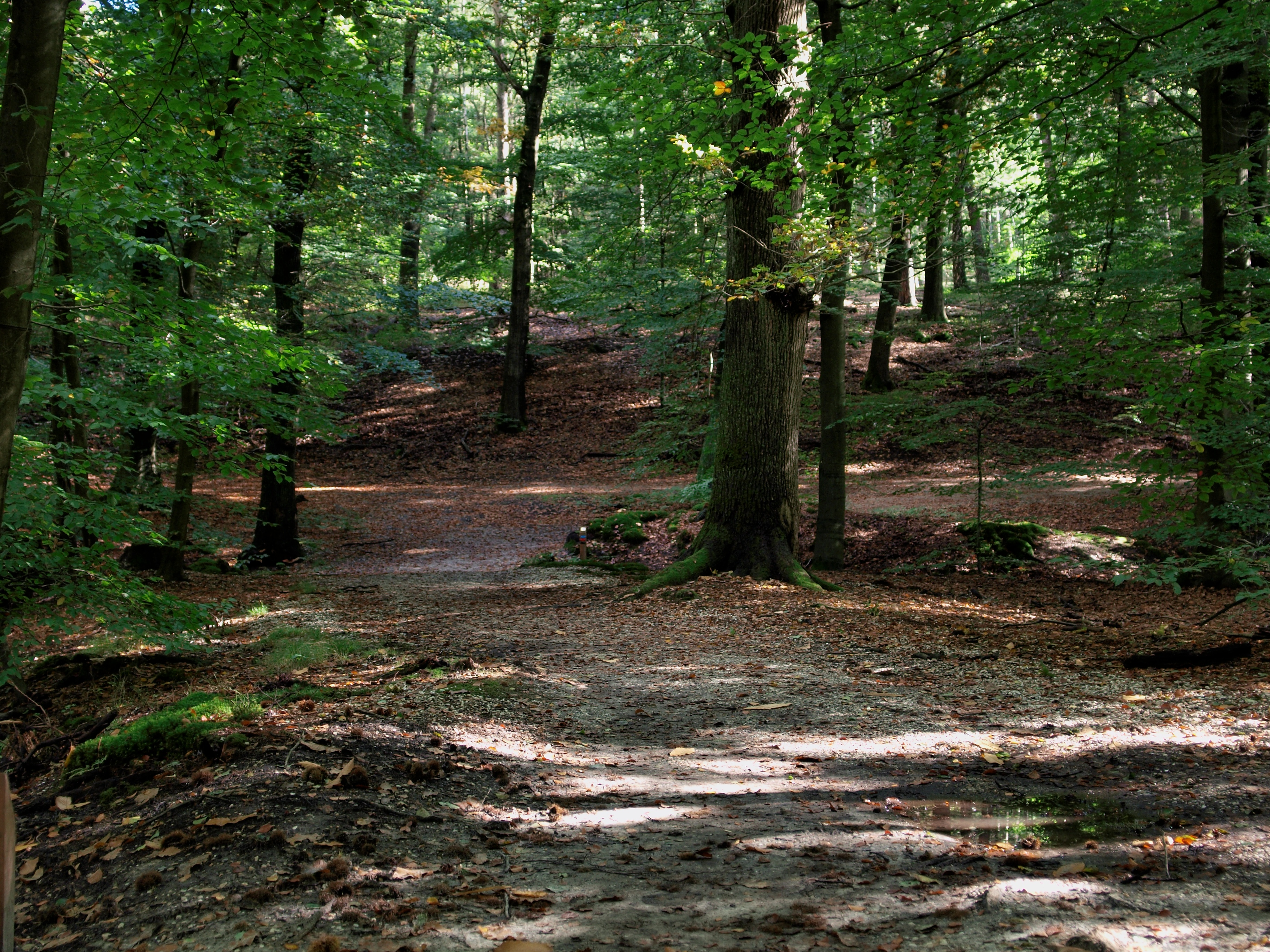 Woods at Beekhuizen, Velp, Nederland